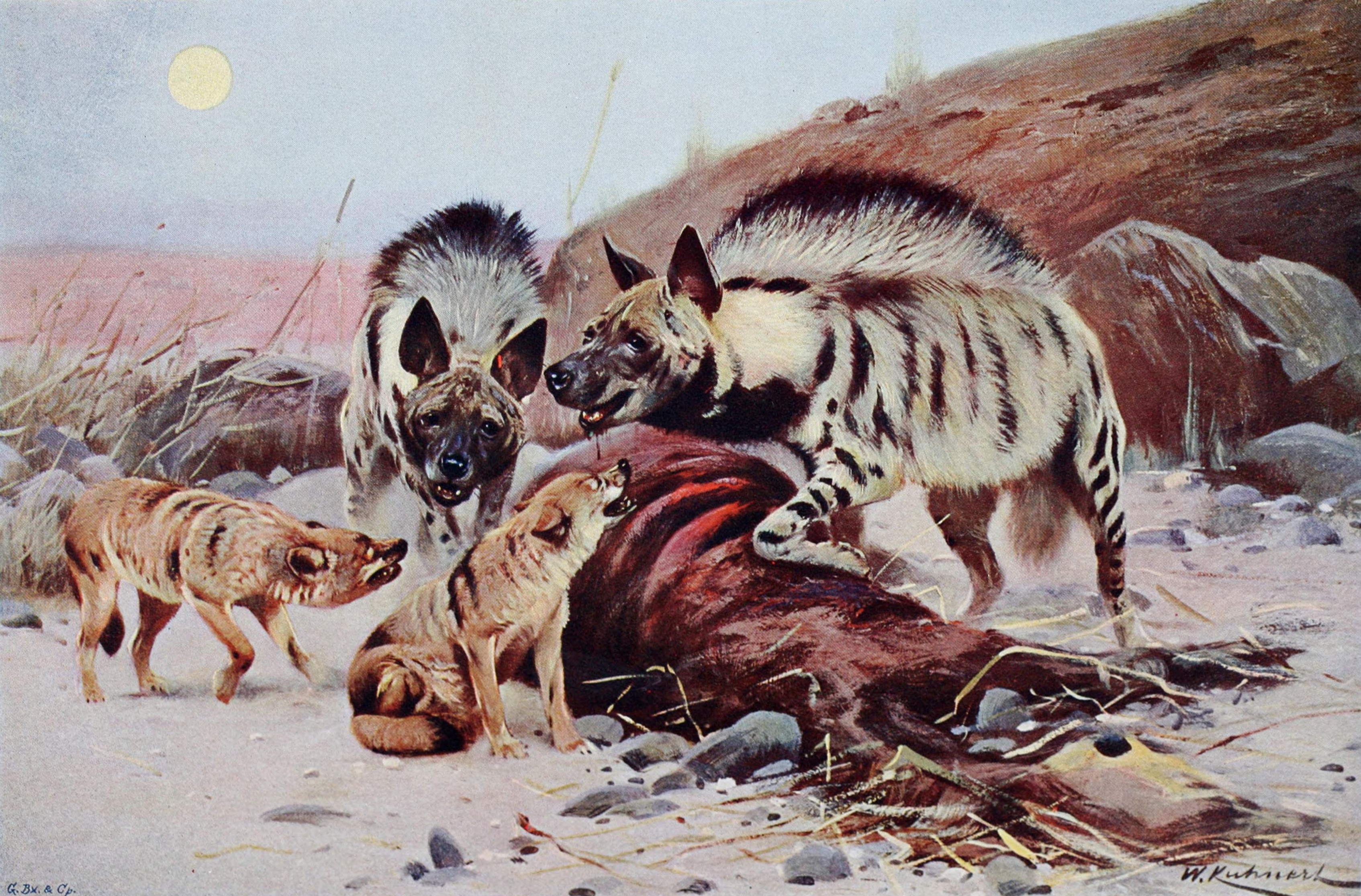 Painting of striped hyenas and golden jackals at a carcass